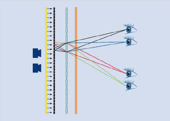 Autostereoscopic 3D television system.